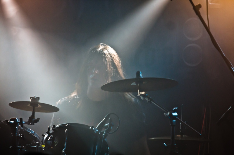 Kerim "Krimh" Lechner of Decapitated Polish death metal band, Kraków, Loch Ness, 14.10.2010